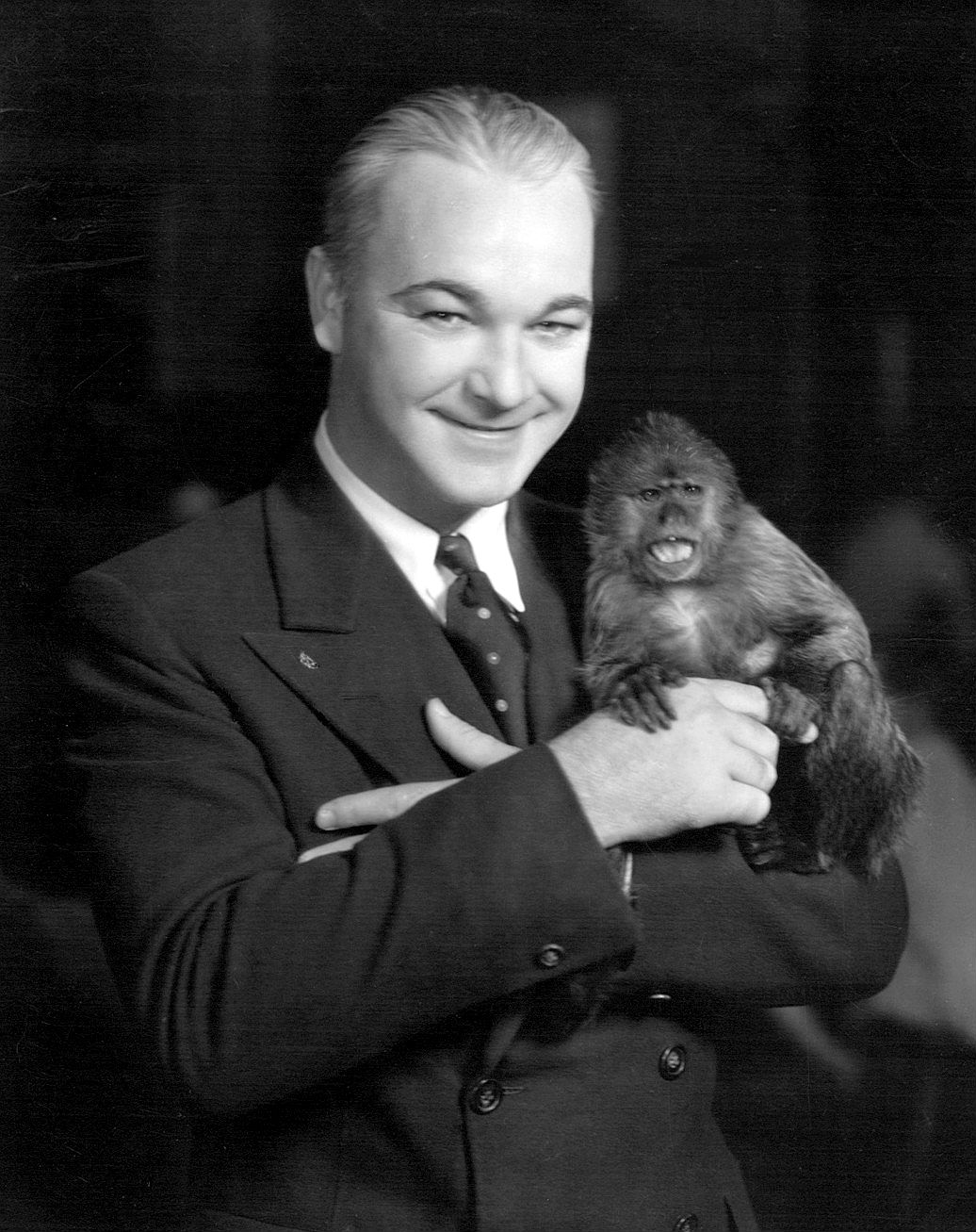 Photo of William Boyd and Miss Josephine on the set of the 1931 film The Big Gamble. Boyd and Josephine had worked together 4 years earlier on The Yankee Clipper. The photo has no copyright markings on it as can be seen in the links above.